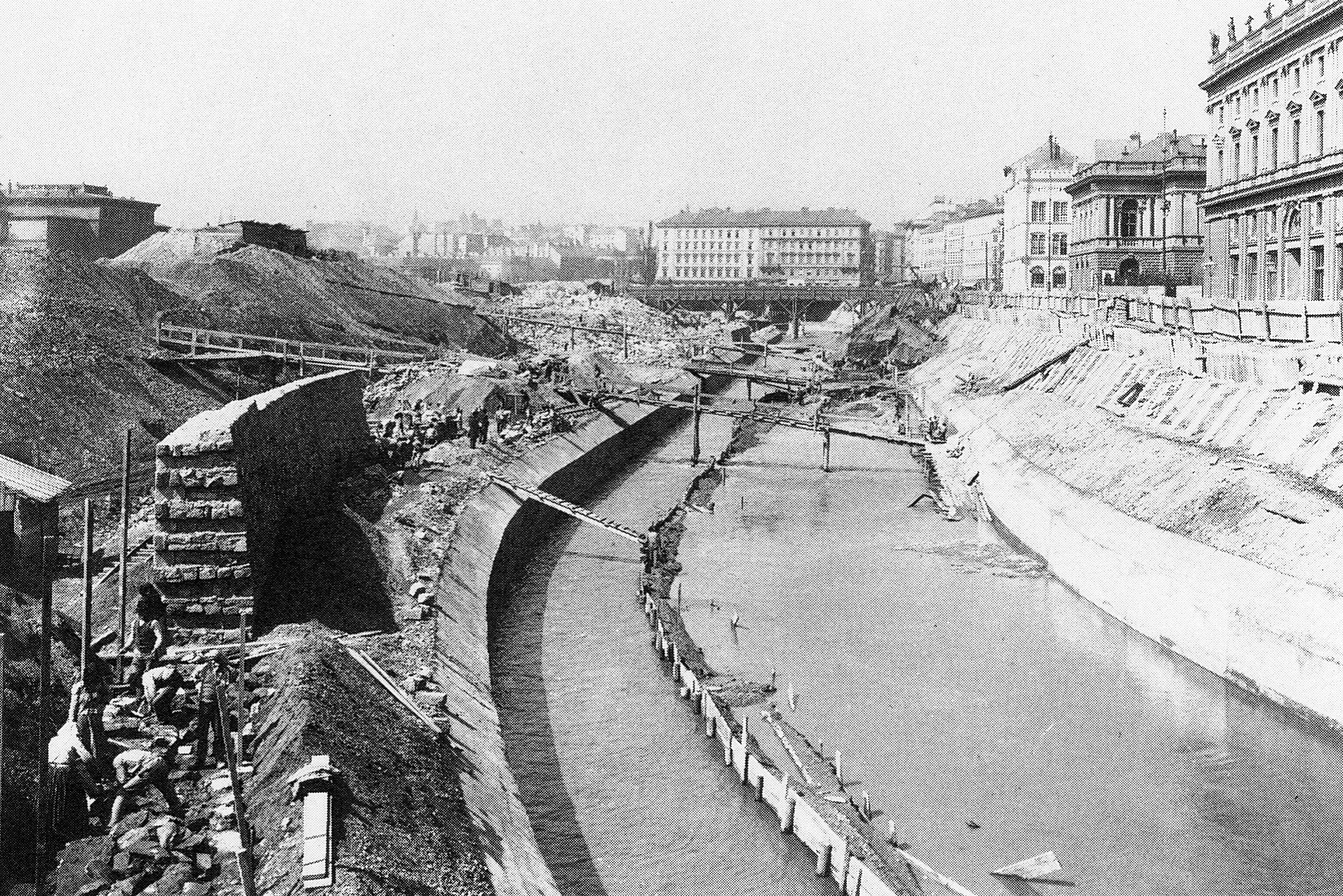 River Wien at Karlsplatz is regulated and put underground